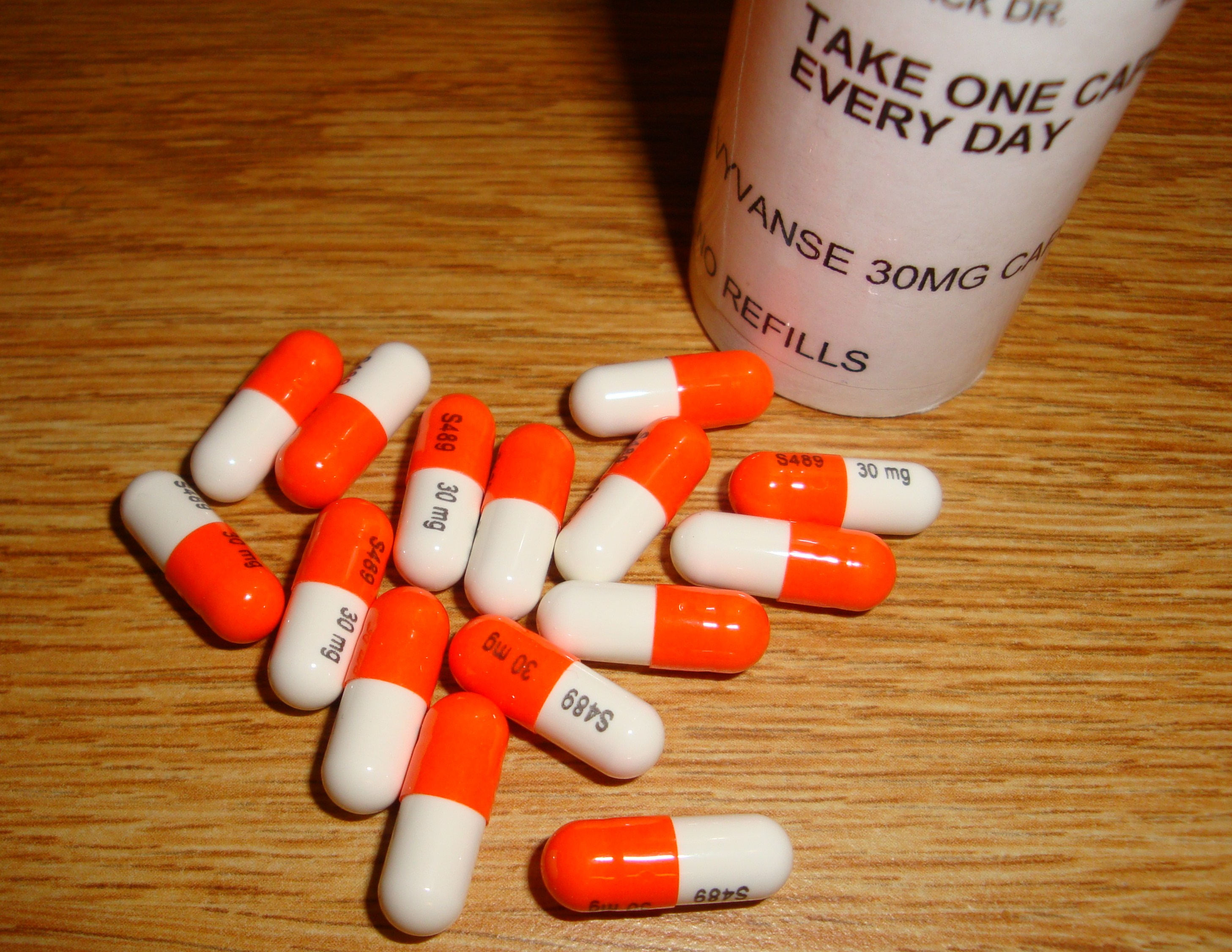 A picture showing 30mg Vyvanse capsules. Picture intended as an additional visual aid for the Lisdexamfetamine page.